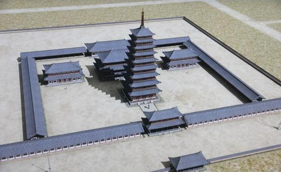 A photo of the Hwangryongsa made by National Museum of Korea